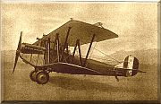 Italian Fiat BR.3 light bomber